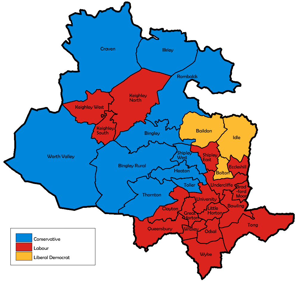 Ward map of Bradford Council with political colouring for the 1998 local election.